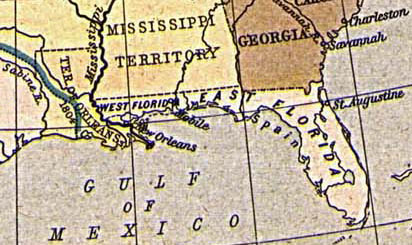 Map of East and West Florida in 1810, from the Perry-Castañeda Map Collection [1]. The boundary between the two provinces is incorrect; it was at the Apalachicola River, not the Perdido River (as shown here).